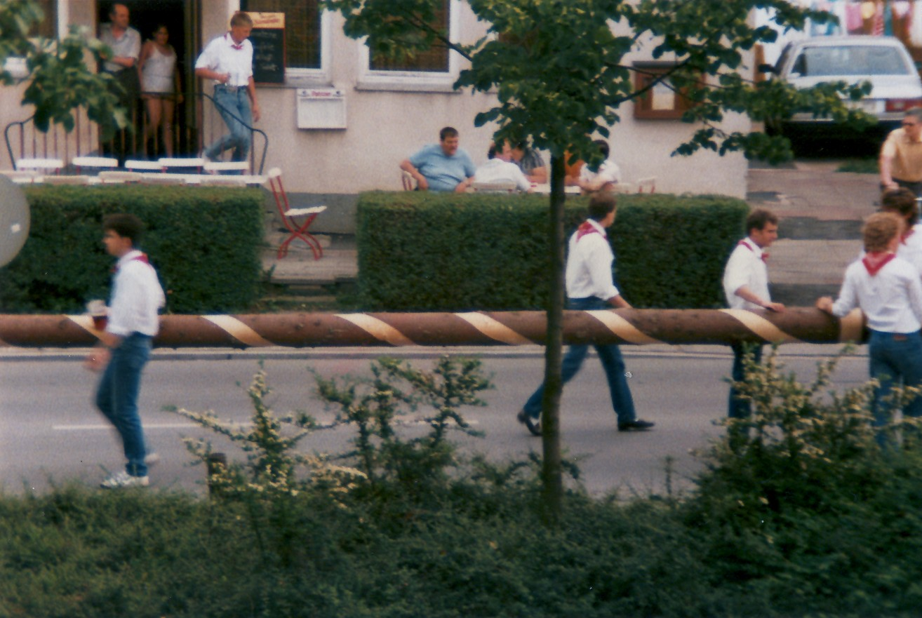 Kirchweihbaum (franconian parish fair)